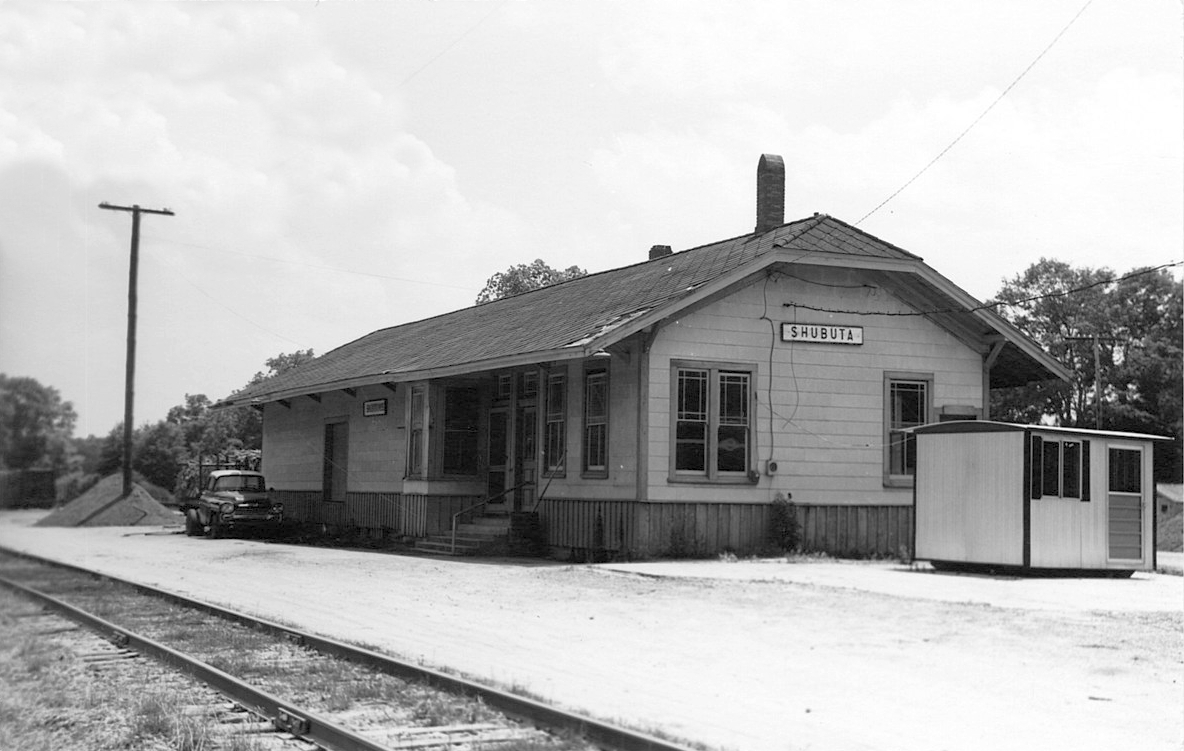 Collection: Railroad Depot Postcard Collection Call number: PI/1987.0009 System ID: 77436 G. M. and O. Depot, Shubuta, Miss. Please see our profile page for information on ordering. Scanned as tiff in 2008/11/13 by MDAH. Credit: Courtesy of the Mississippi Department of Archives and History